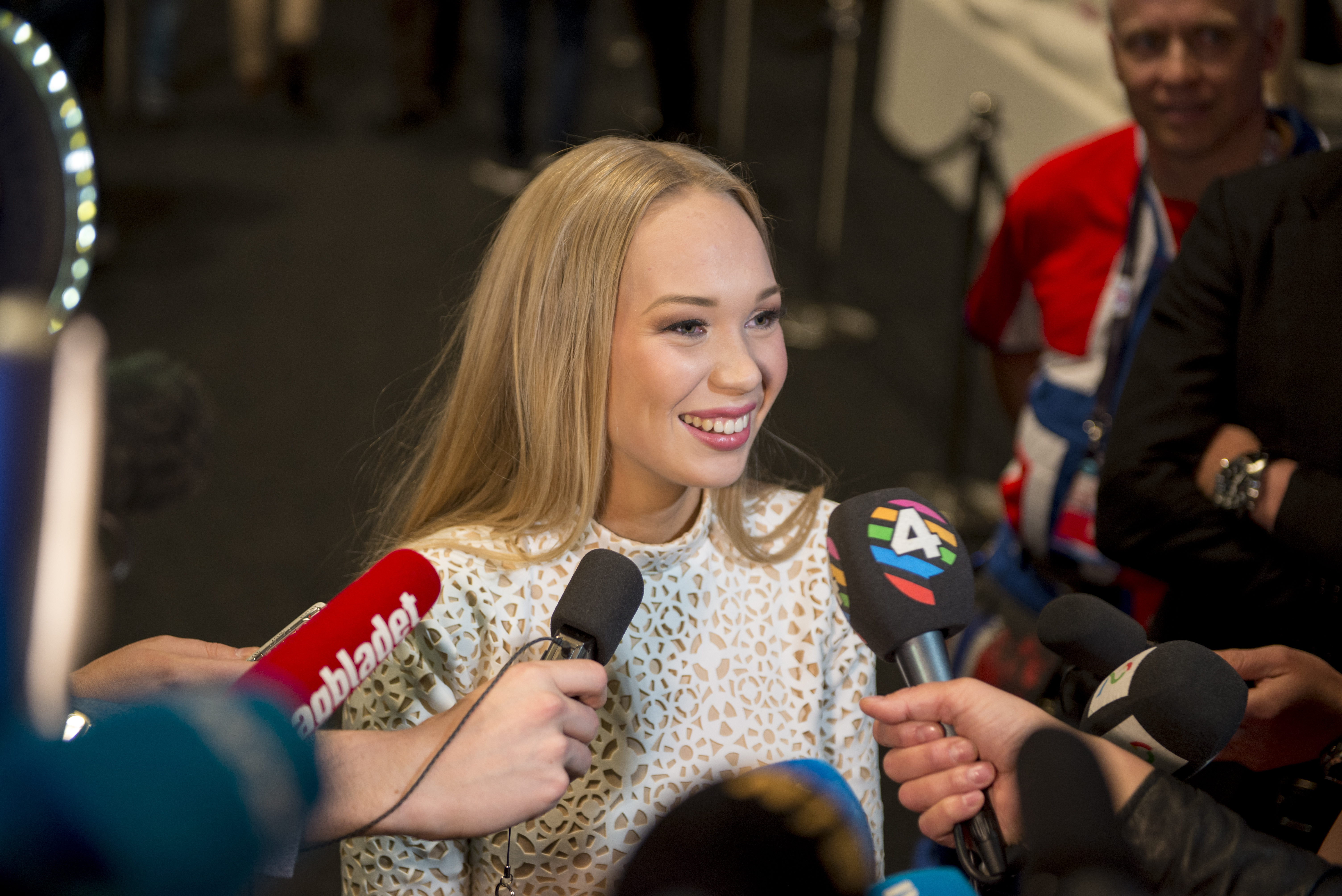 Agnete Johnsen during the Eurovision Song Contest 2016 Stockholm. (Help translate this text)